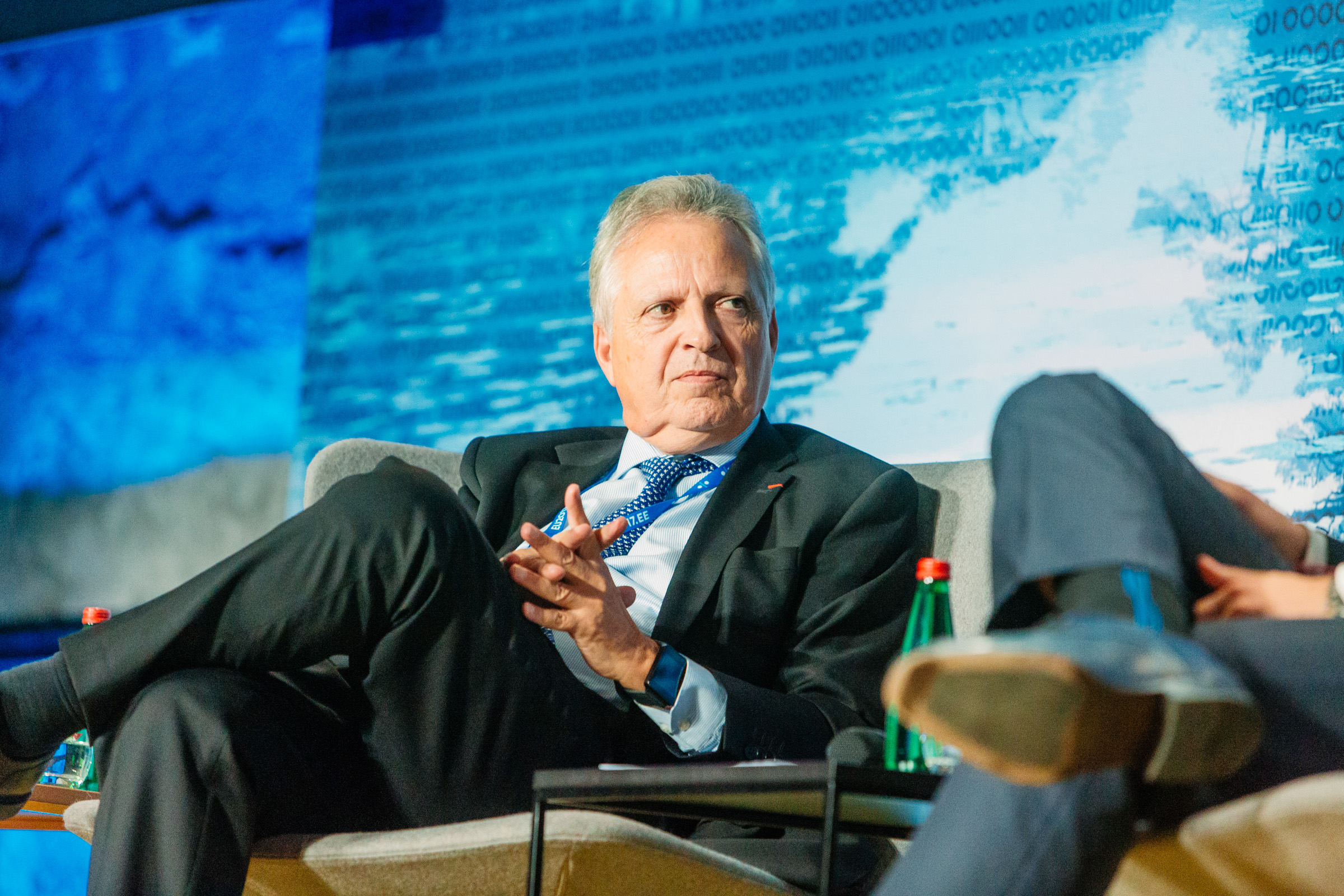 Dominique Ristori , Director General for Energy, European Commission